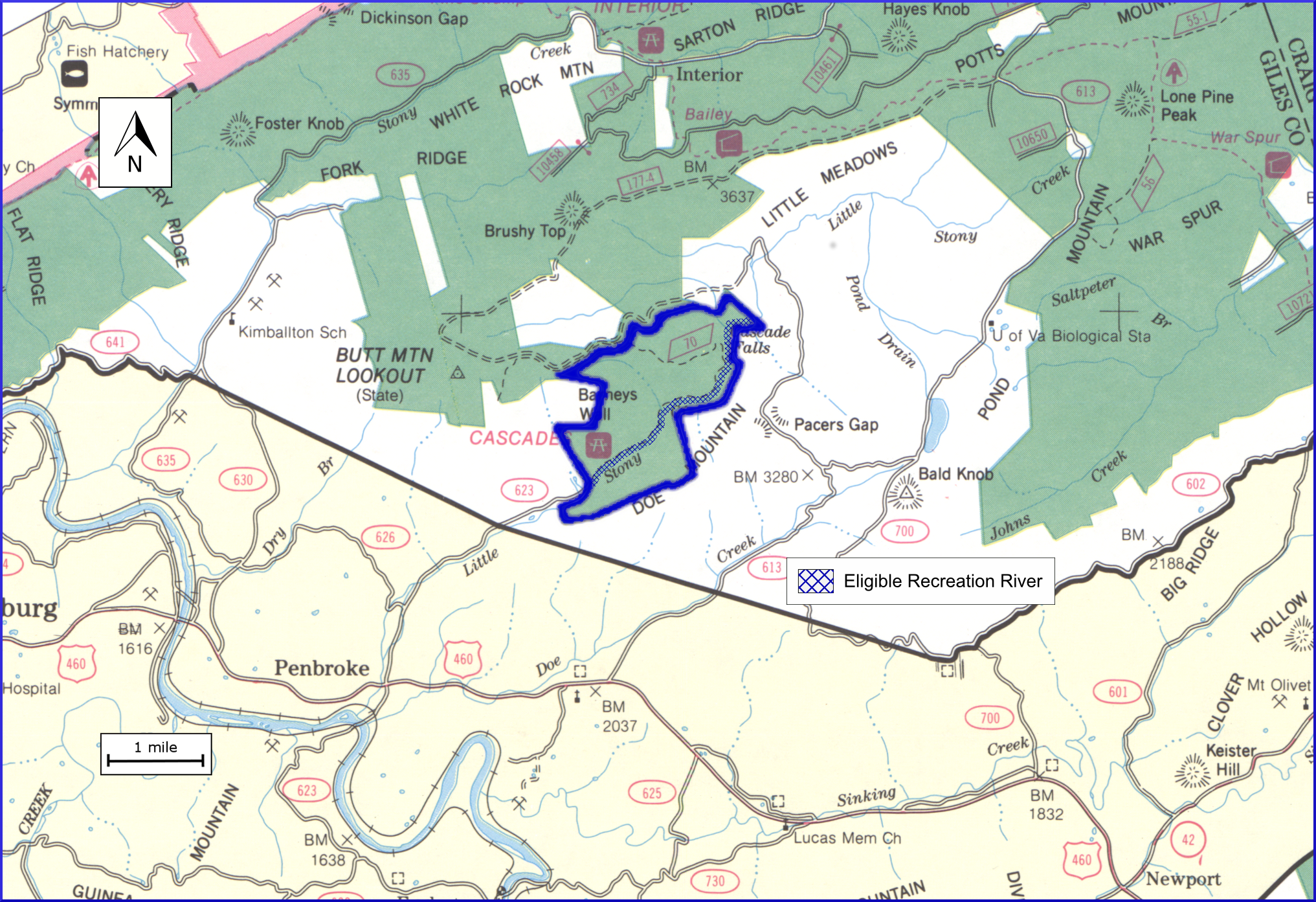 map of Cascades wild area